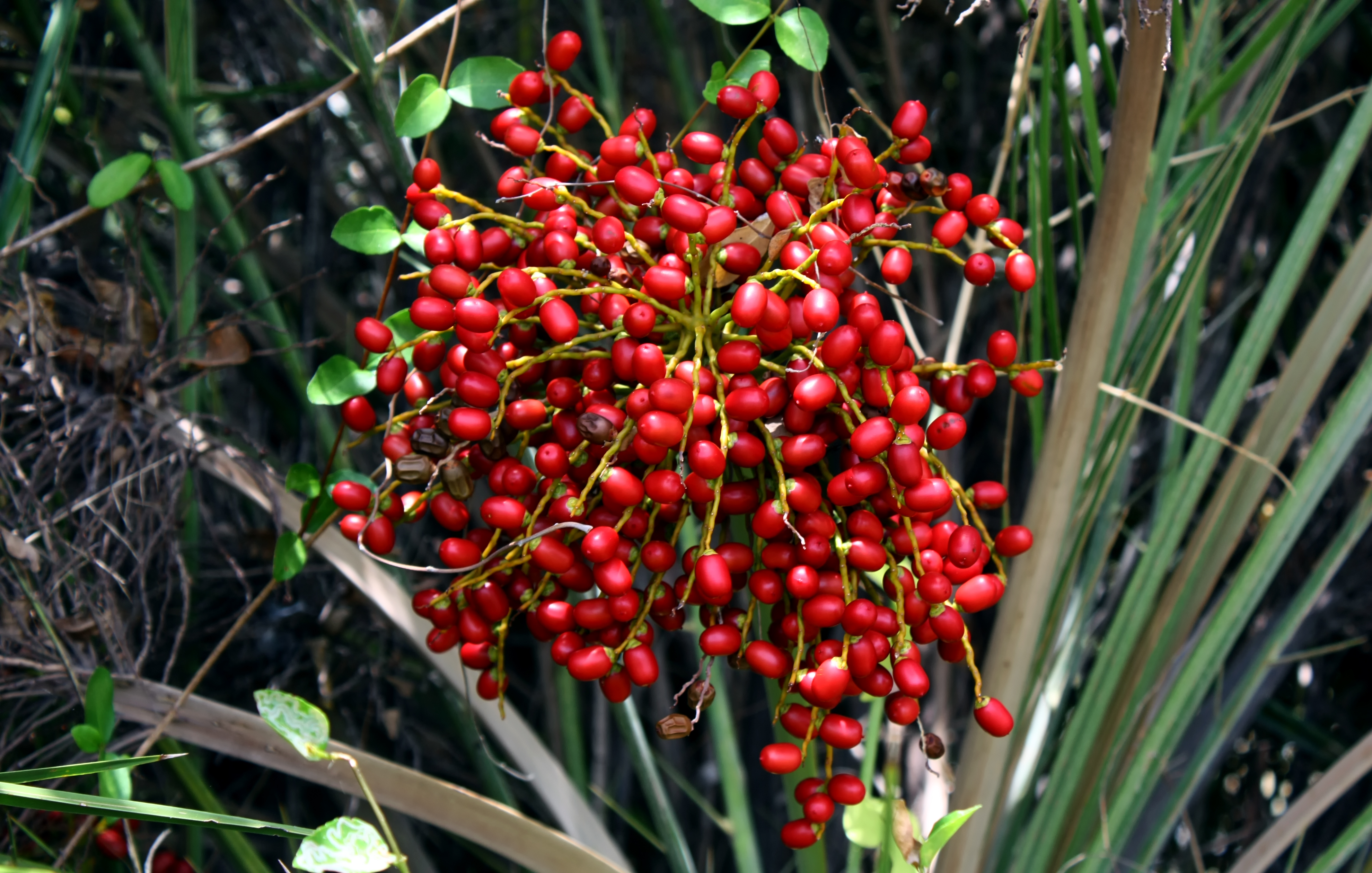 Bunch of Phoenix sylvestris fruits. (It is not full ripe, but partially. Fully ripe fruits are black color, and earlier stage has green color.)